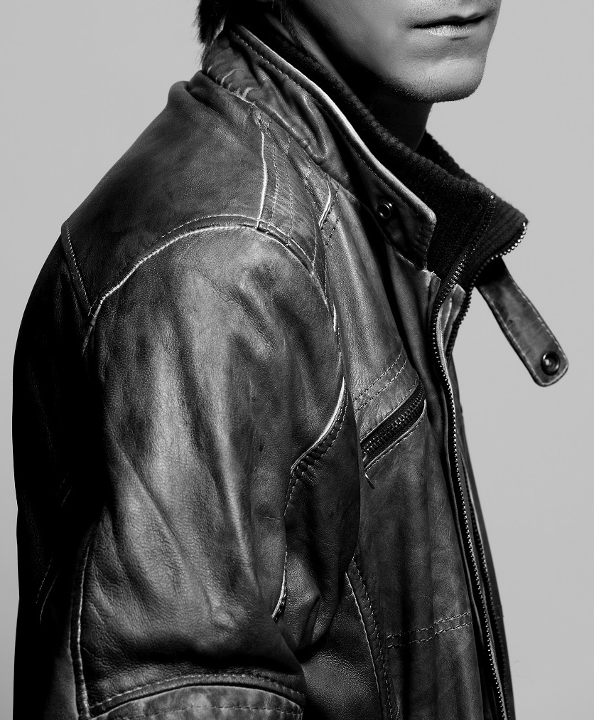 Leather jacket. Model is Alec Cedric Xander.